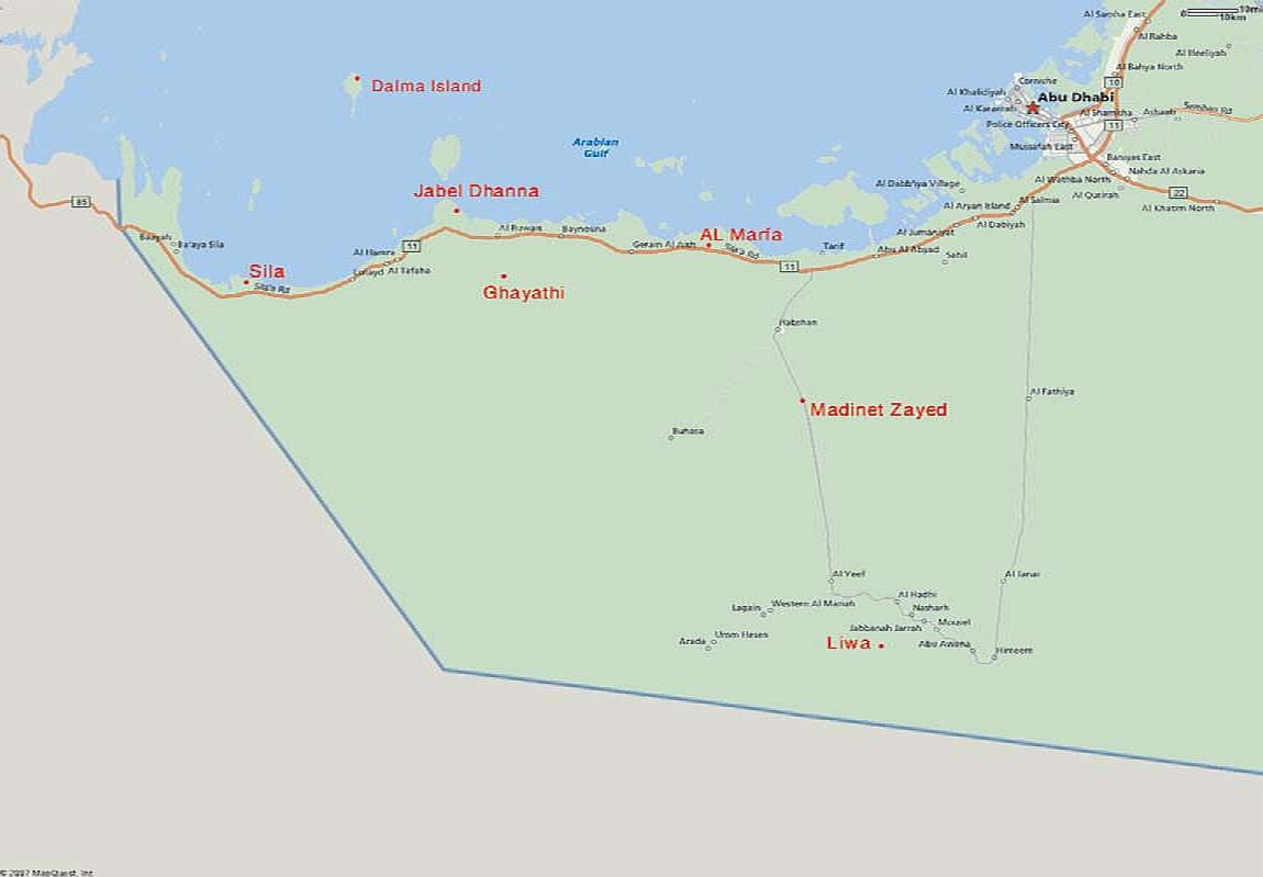 خريطة المنطقة الغربية ومراكز تمSome of the illegible place names and most roads are on this map